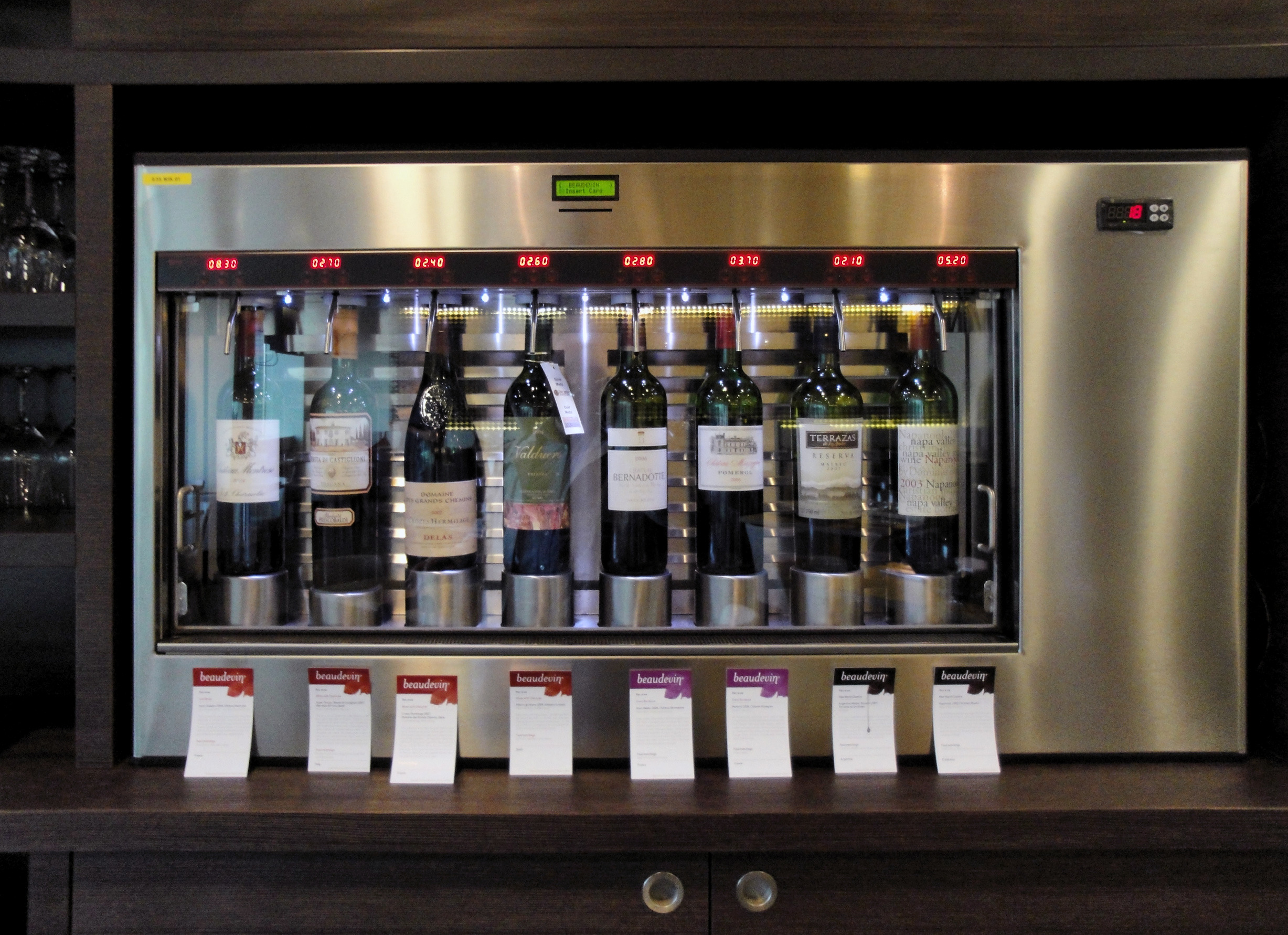 An 8-bottle Enomatic machine (customer-operated wine dispenser) at the Beaudevin wine and tapas bar, Brussels airport.